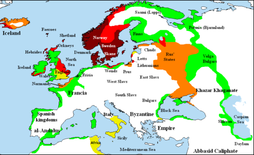 Map showing area of Scandinavian settlement (Vikings and Normans descendants from Normandy) in eighth century ninth century tenth century eleventh century denotes areas subjected to frequent Scandinavian contacts, but with little or no Scandinavian settlement